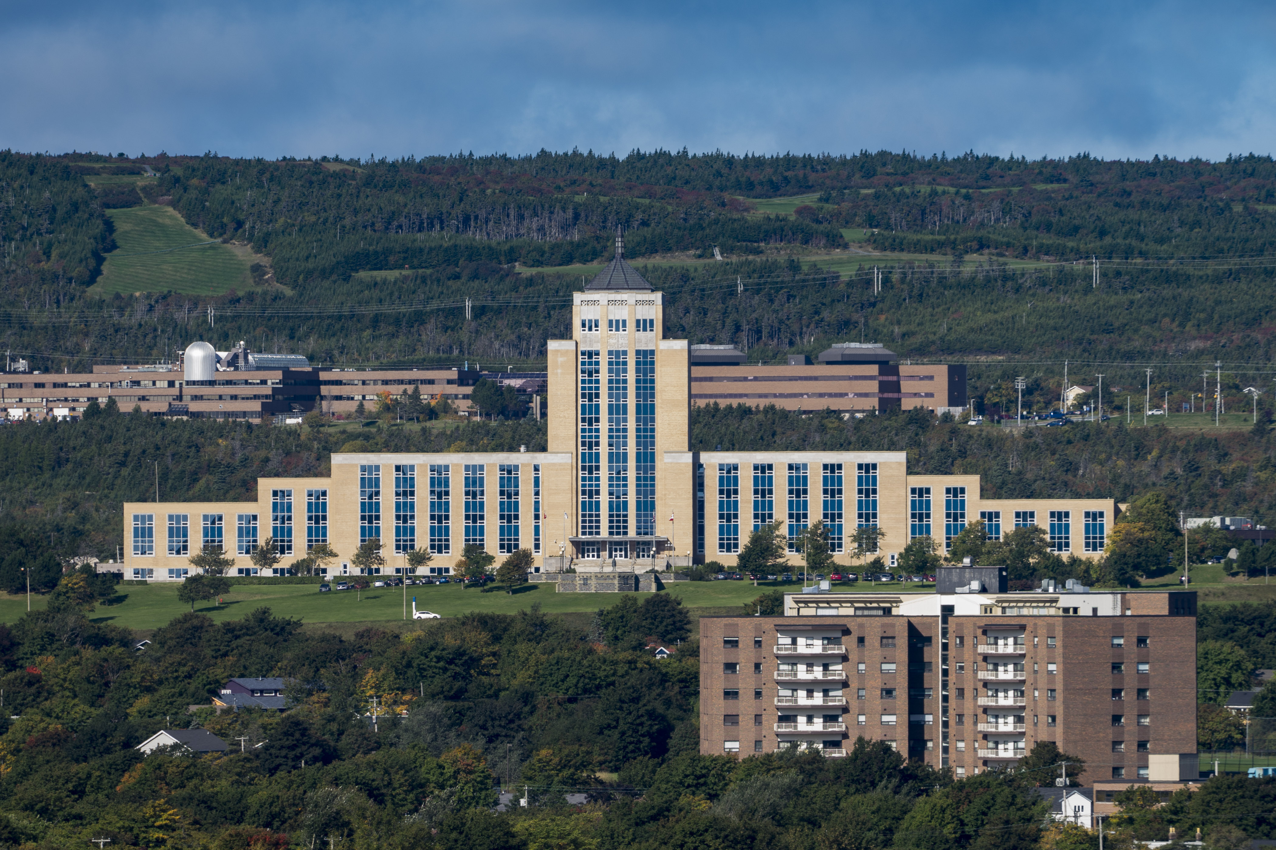 The Confederation Building, seat of the Newfoundland and Labrador provincial government, in St. John's Newfoundland.